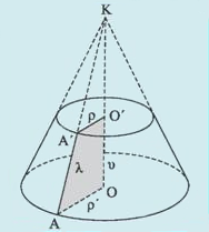 Mathematical formula